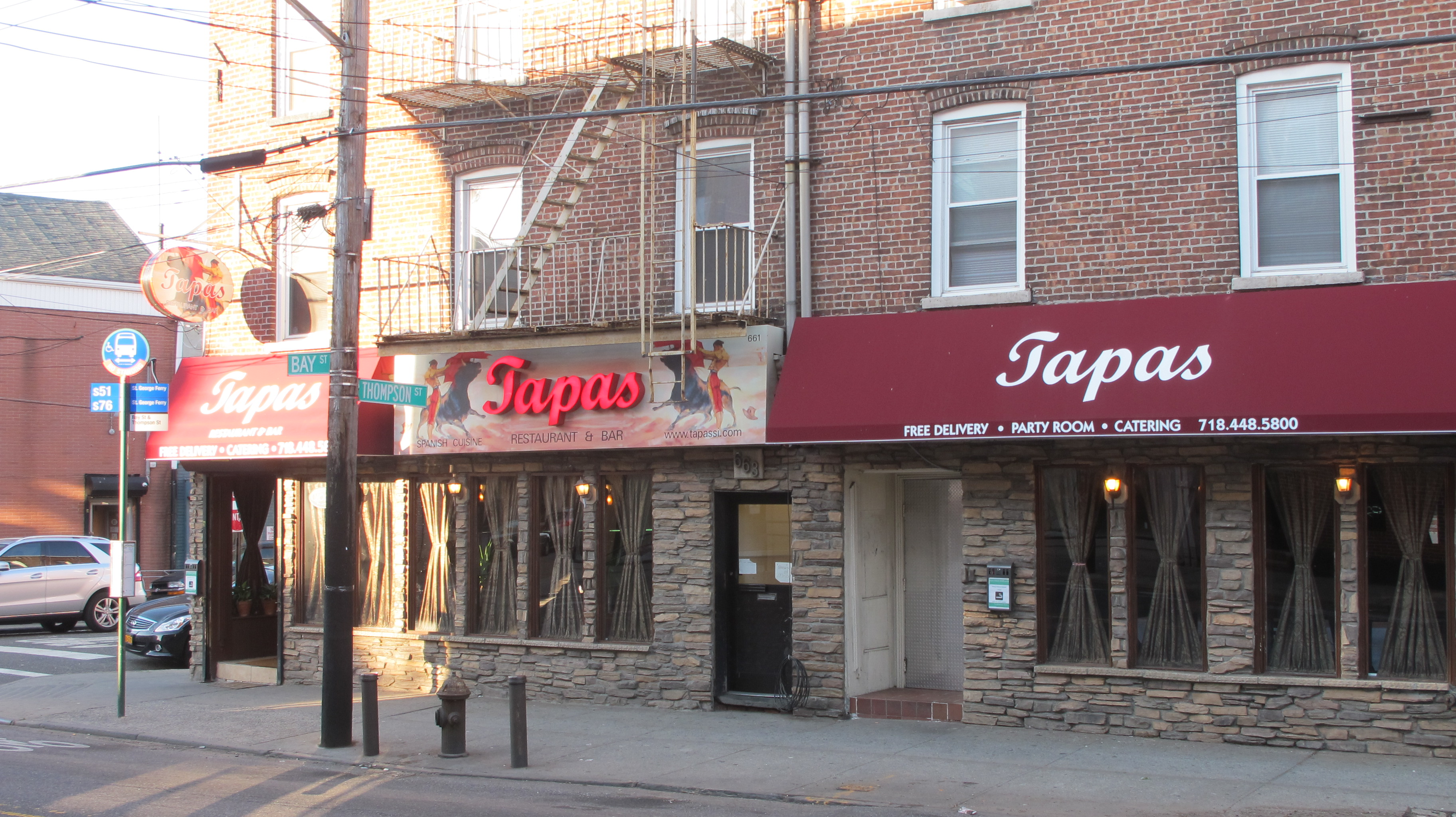 A Spanish restaurant in Stapleton Village, Staten Island